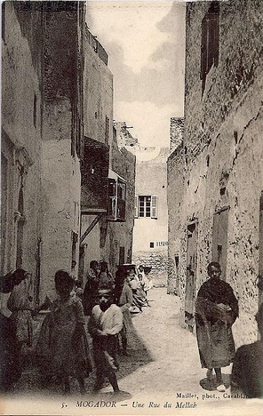 Street in the Mellah of Mogador (Essaouira) - Moroccco in the 1910-20-30 ?